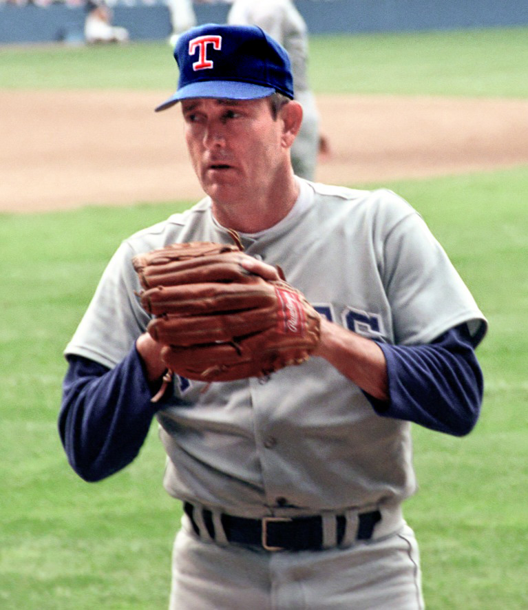 Nolan Ryan warning up in the bullpen at Tiger Stadium.